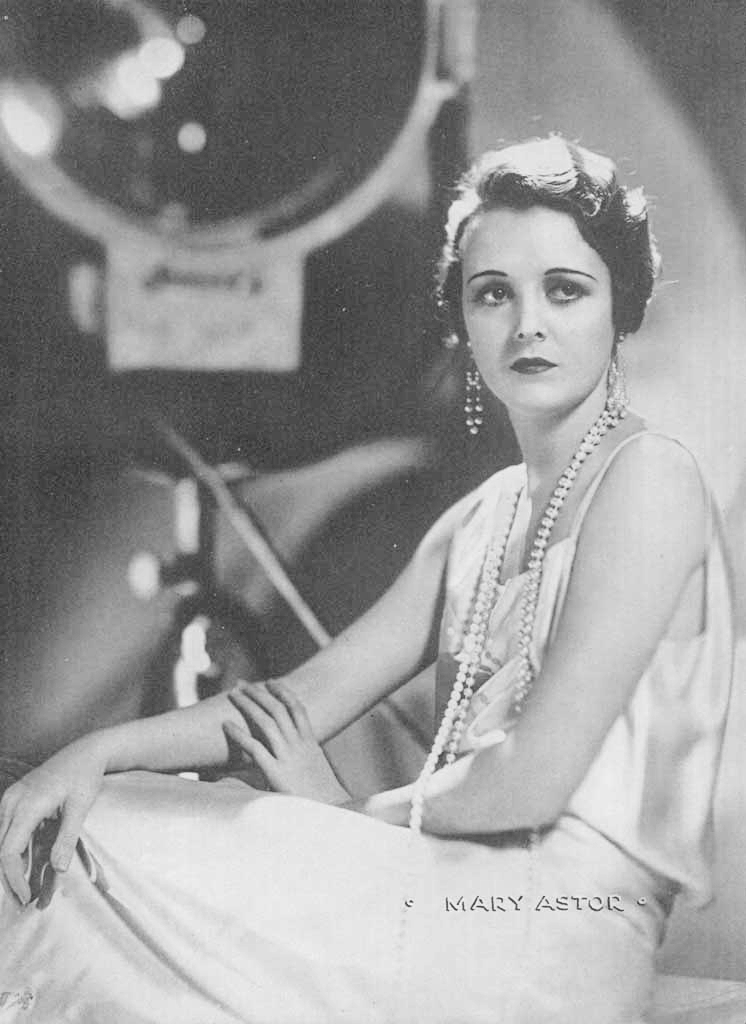 Publicity photo of Mary Astor for Argentinean Magazine. (Printed in USA)